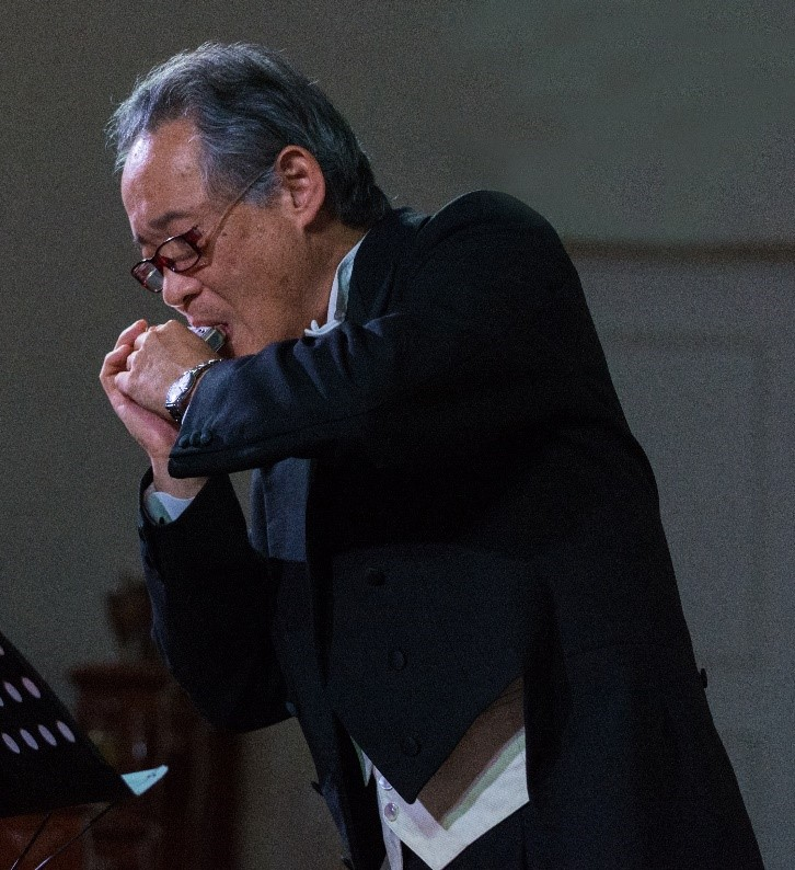 Yasuo Watani in a performance